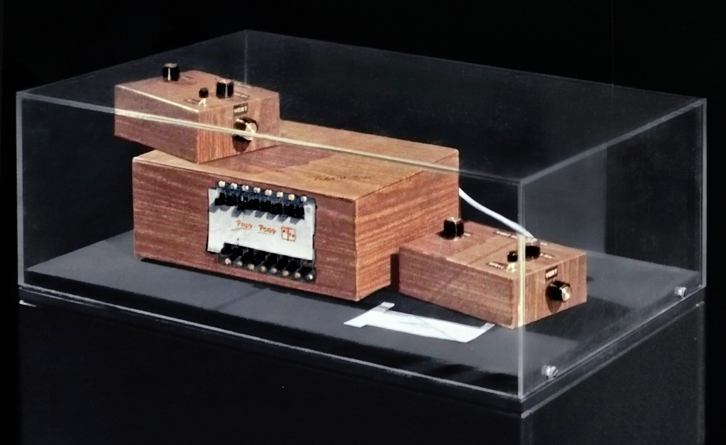 Baer's Brown Box recropped and retouched